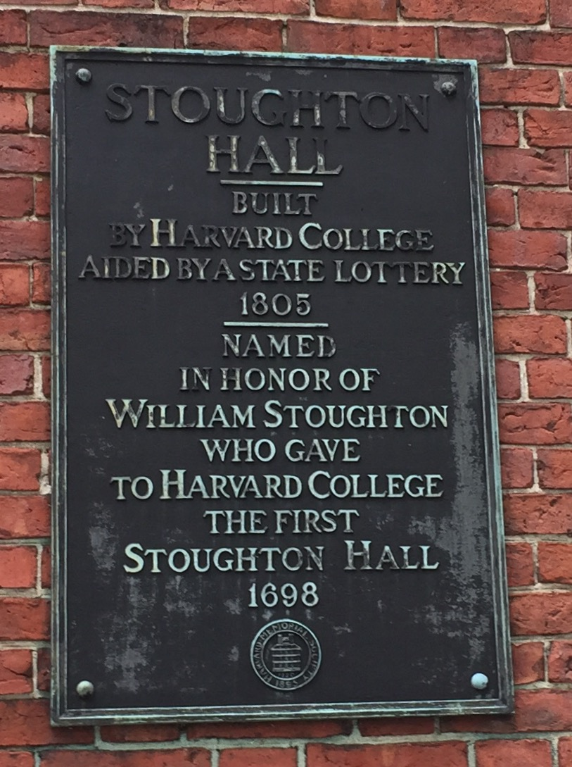 A plaque currently on Stoughton Hall telling the history of the building.